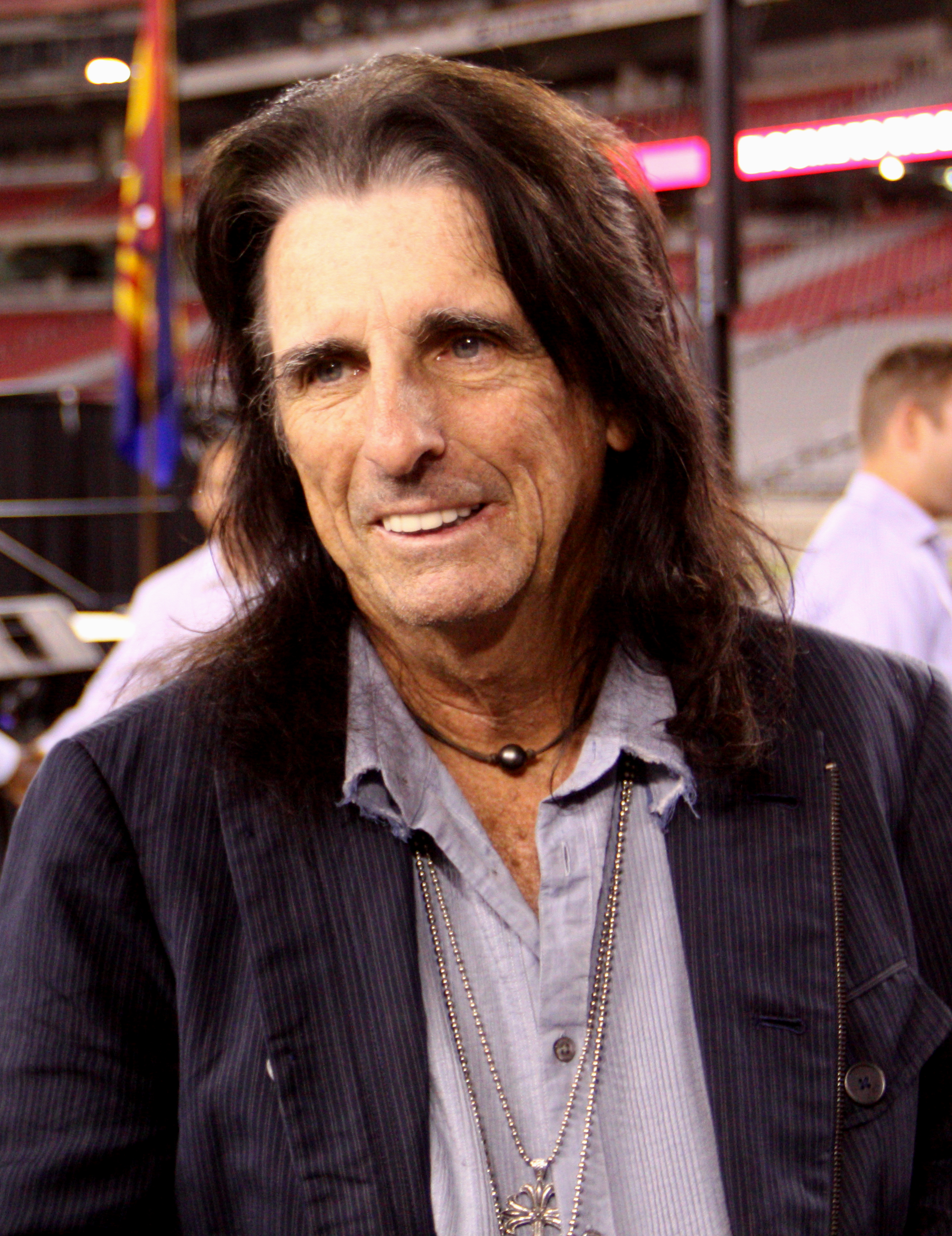 Alice Cooper speaking at a dinner in Glendale, Arizona on April 27, 2013.